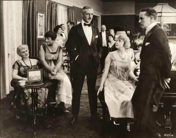 Jack Fyfe (played by Wallace Reid, center) glares at Walter Monahan (Joe King, right) as Stella Barton (Kathlyn Williams, between them sitting at the piano) watches in a scene still for the 1917 silent drama Big Timber.